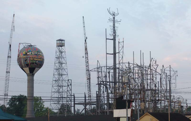 the Mindfield from W. Main Street in Brownsville, TN